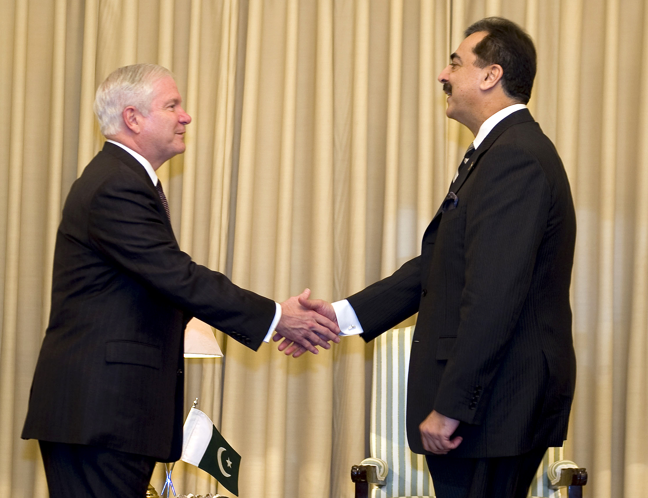 U.S. Defense Secretary Robert M. Gates, left, shakes hands with Pakistani Prime Minister Yousef Raza Gilani at his residence in Islamabad, Pakistan, Jan. 21, 2010. Gates met with the country's top military leaders and his Pakistani counterpart to discuss Washington's new Afghan policy and other issues of mutual interests.